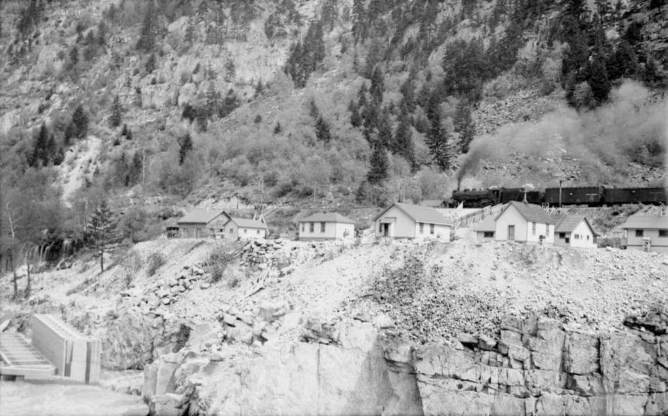 View of Hell's Gate, British Columbia, looking across to east bank, with a Canadian Pacific Railways steam locomotive in background passing old railway housing